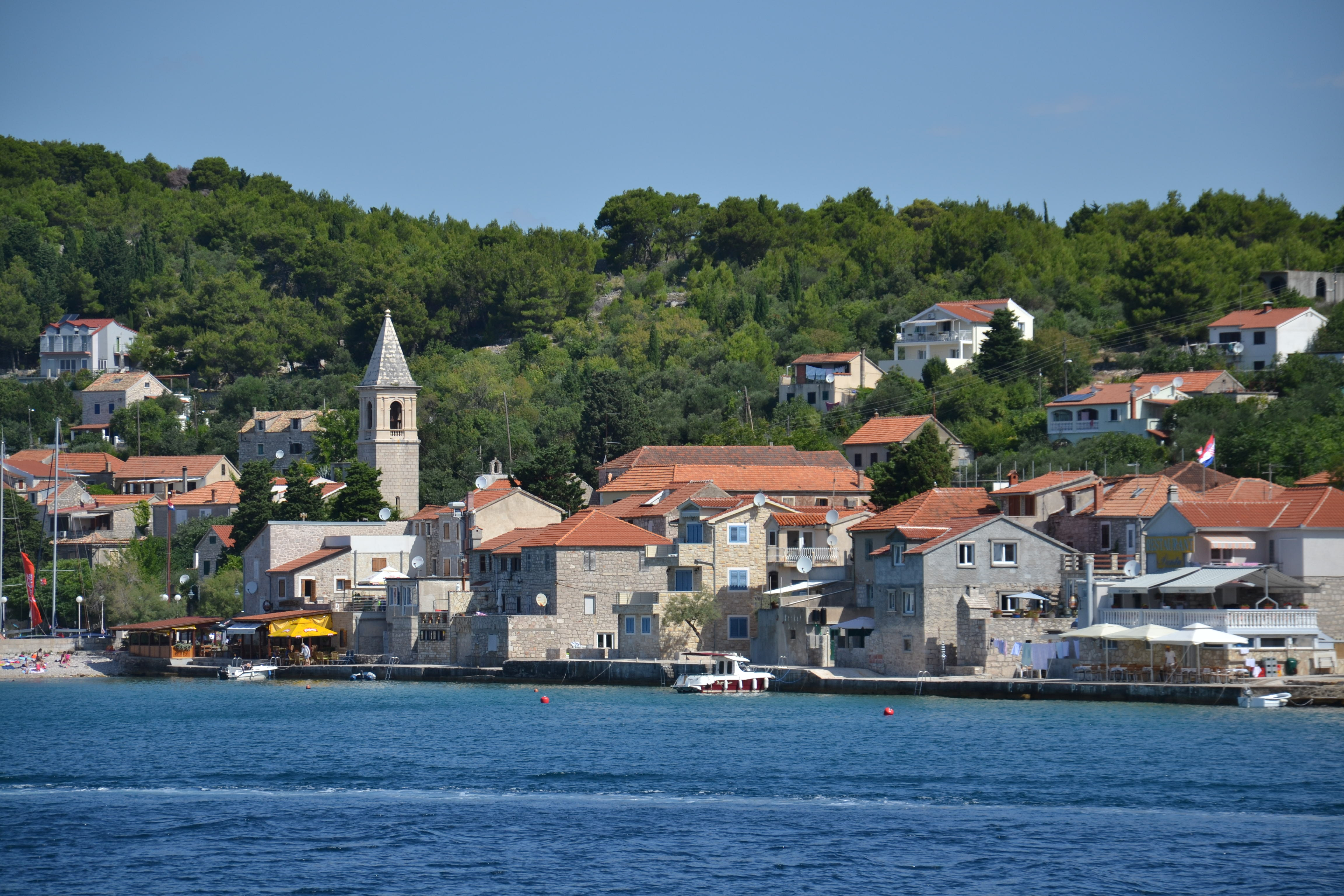 Village of Vela Luka, island of Prvic